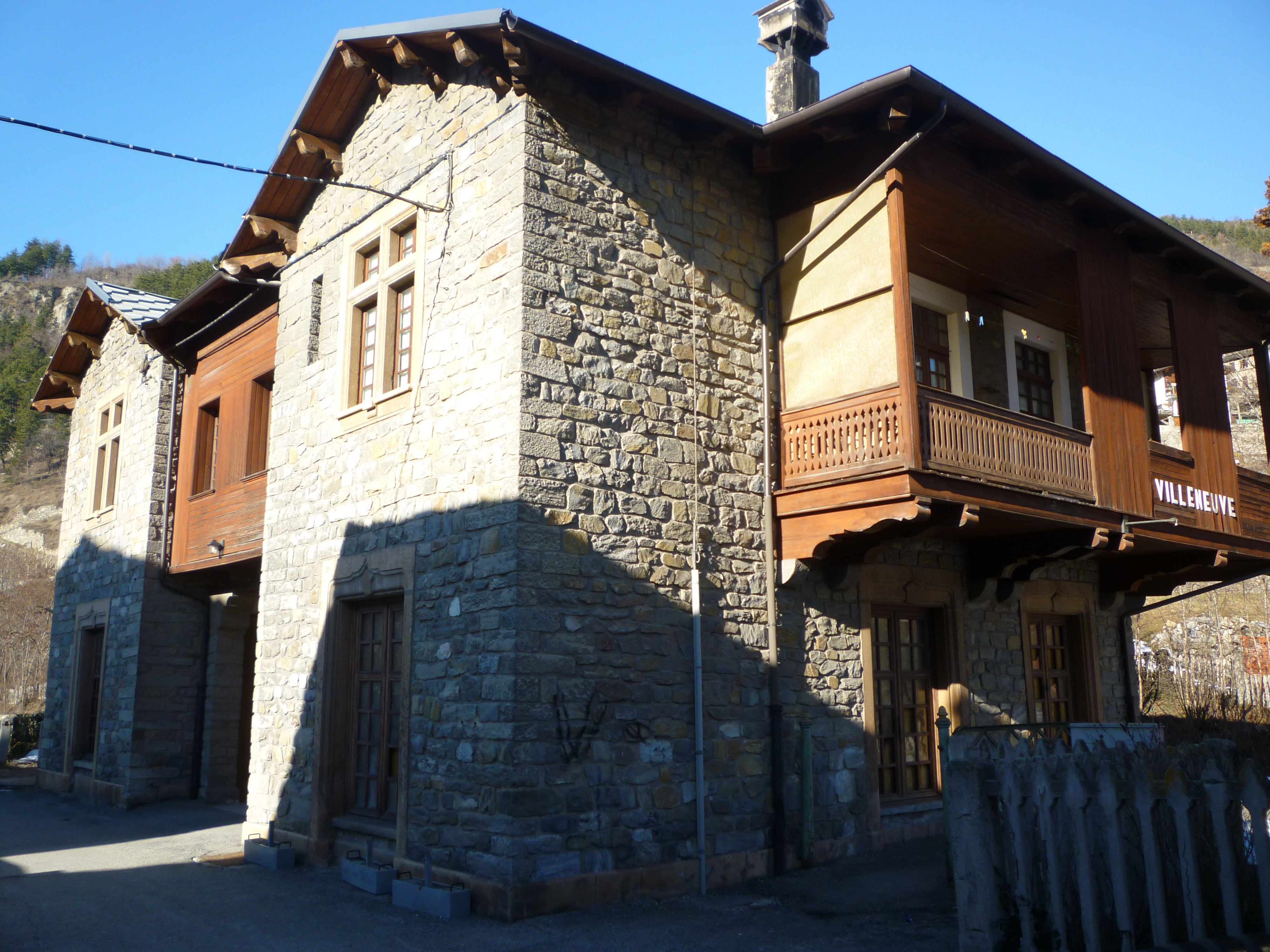 Railway station in Villeneuve (Aosta Valley, Italy)